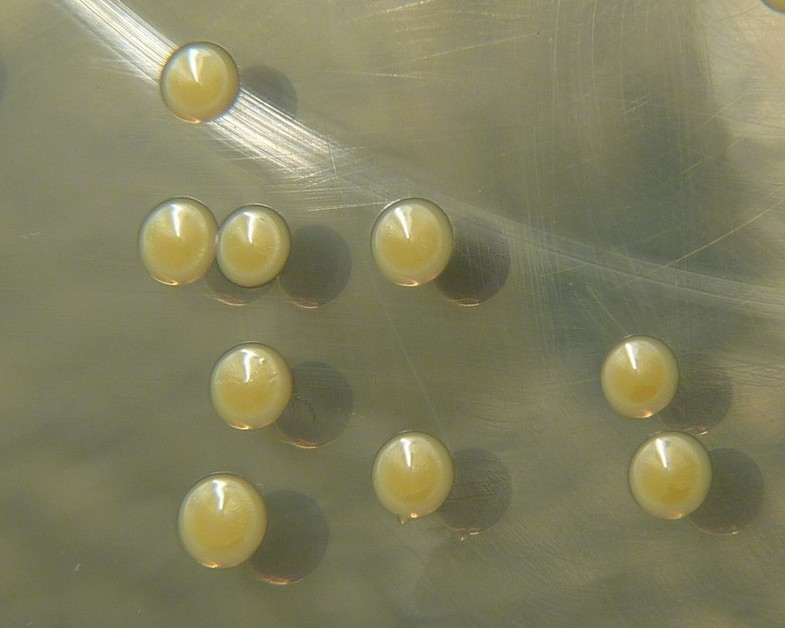 Staphylococcus aureus on Tryptic Soy Agar. Cultivation 24 hours, 37°C.